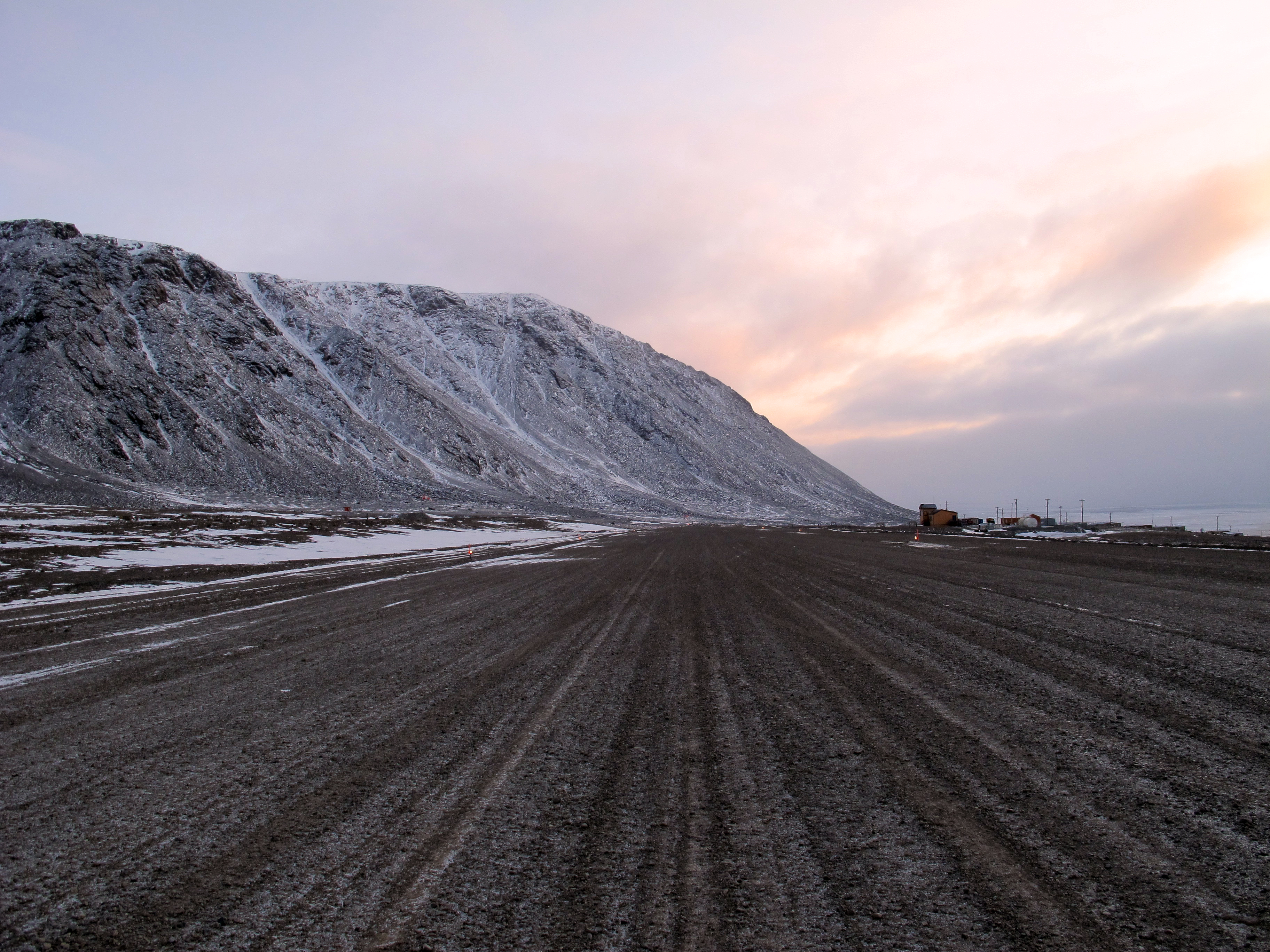 Looking from the threshold toward the hamlet